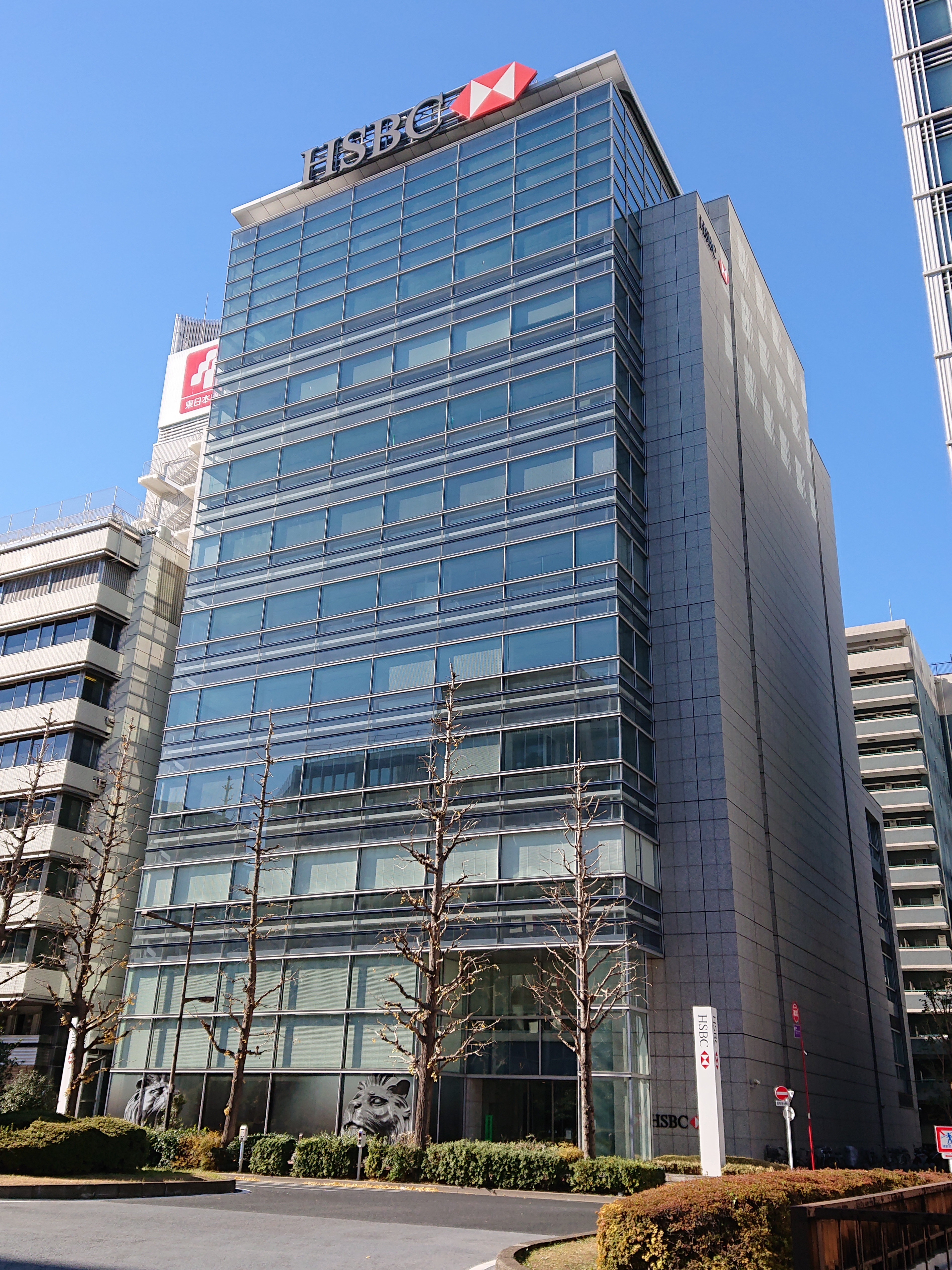 HSBC Building (HSBCビルディング), located at 3-11-1 Nihonbashi, Chuo, Tokyo, Japan